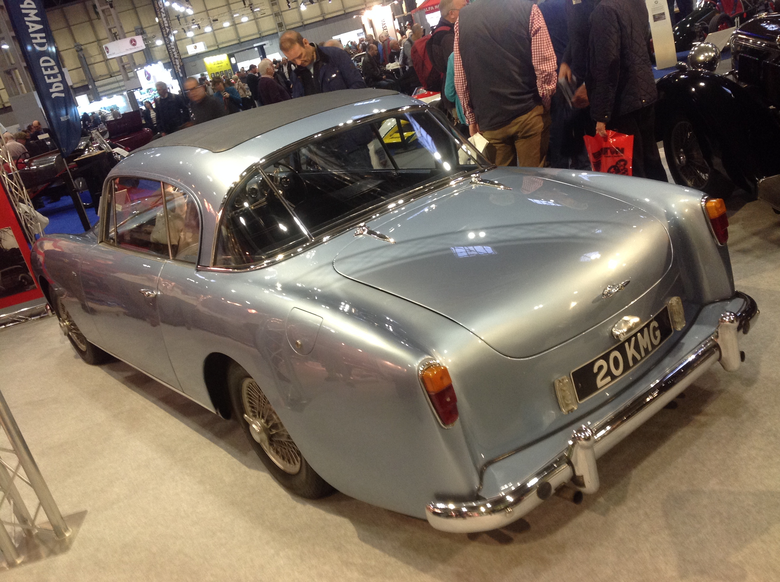 Beautiful car at the NEC Classic Car Show, Birmingham 10 November 2017